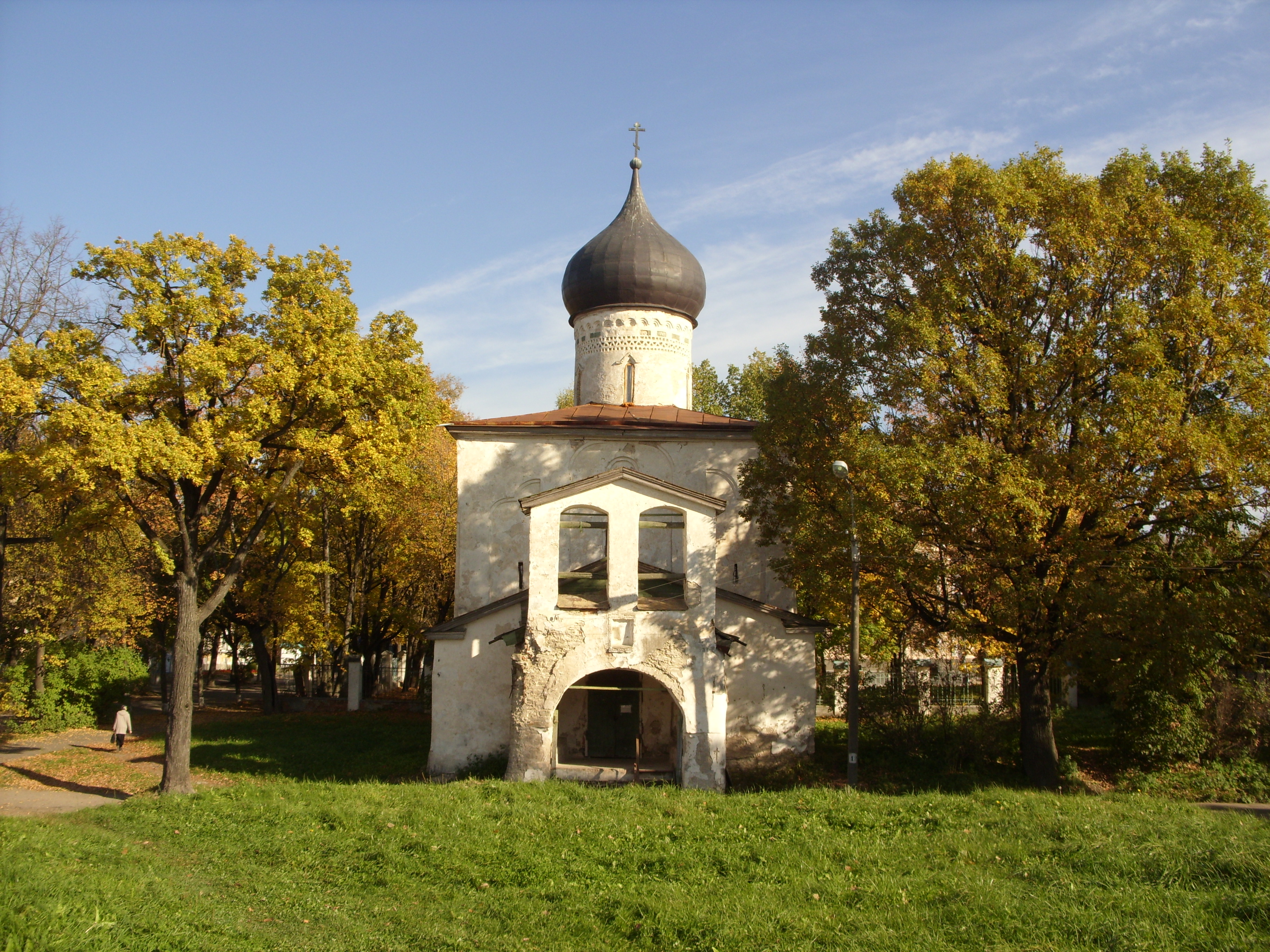 Pskov Georgija so Vzvoza